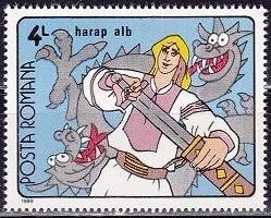 Harap Alb Romanian Cartoons